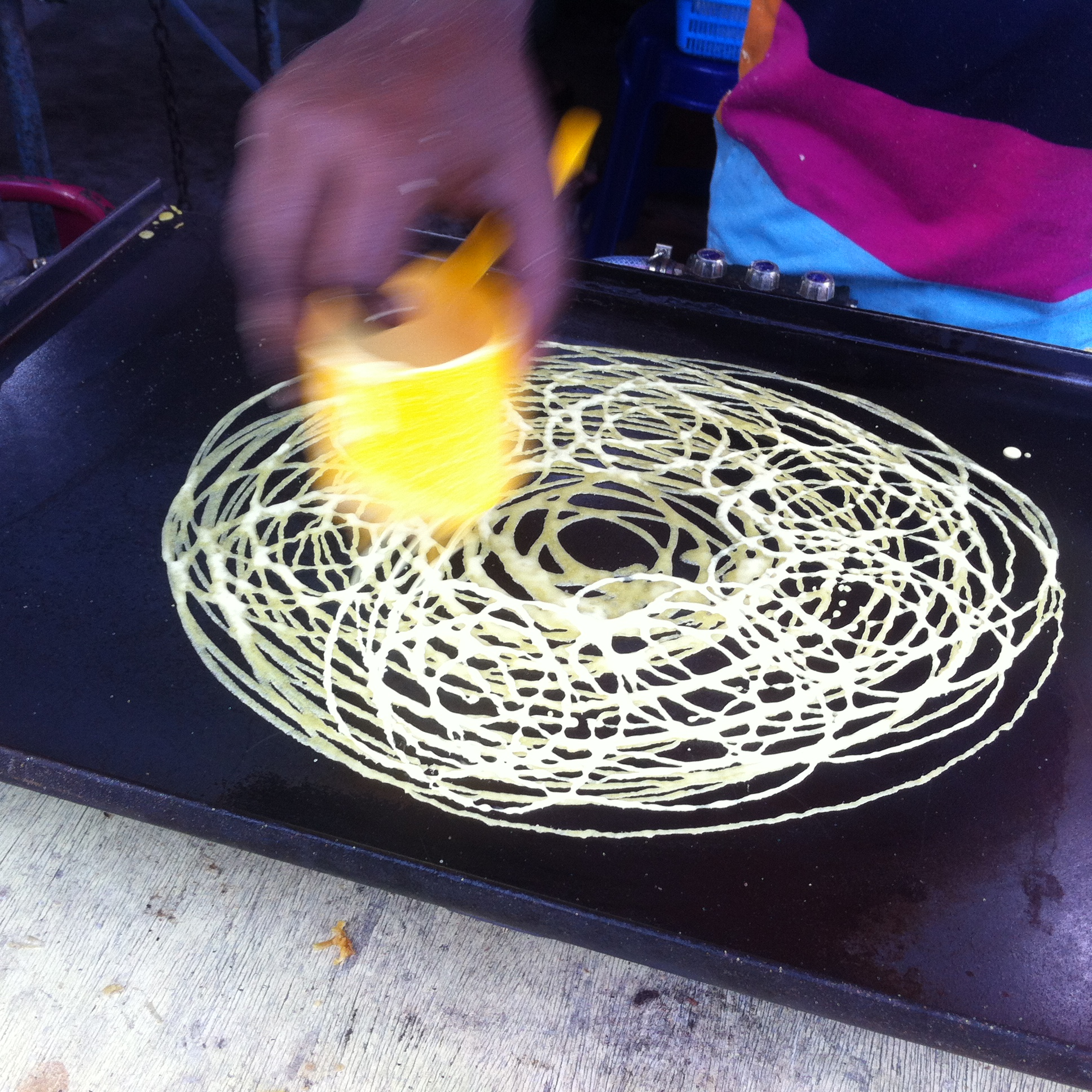 Preparing roti jala, a type of Malaysian pancake.